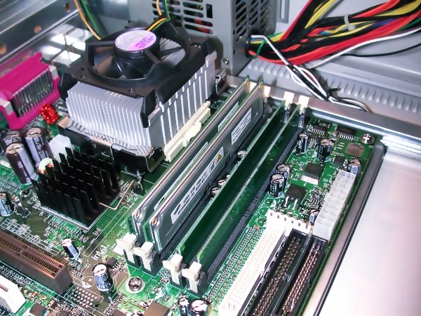 A Memory RIMM Installed on Intel D850GB with Intel Pentium 4 1,5 GHz